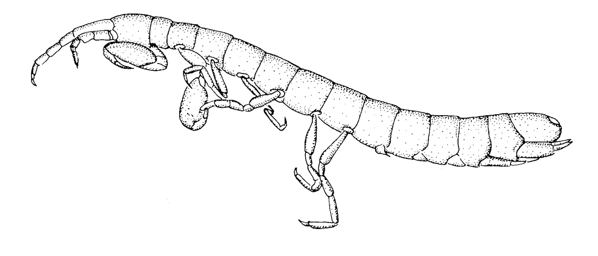 Typical wormshrimp from subtidal sands in the bay of Naples, Italy.